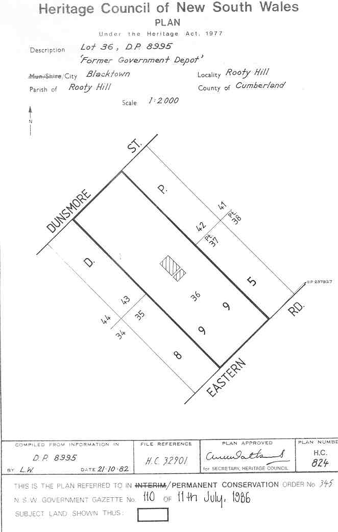 Government Depot Site, Rooty Hill: PCO Plan Number 345